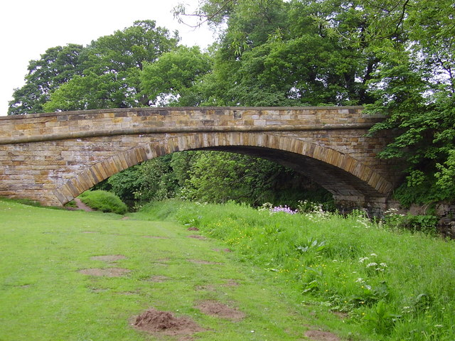 Waterloo Bridge, Haddington, East Lothian This 19th century bridge over the River Tyne is the southern gateway to the town.